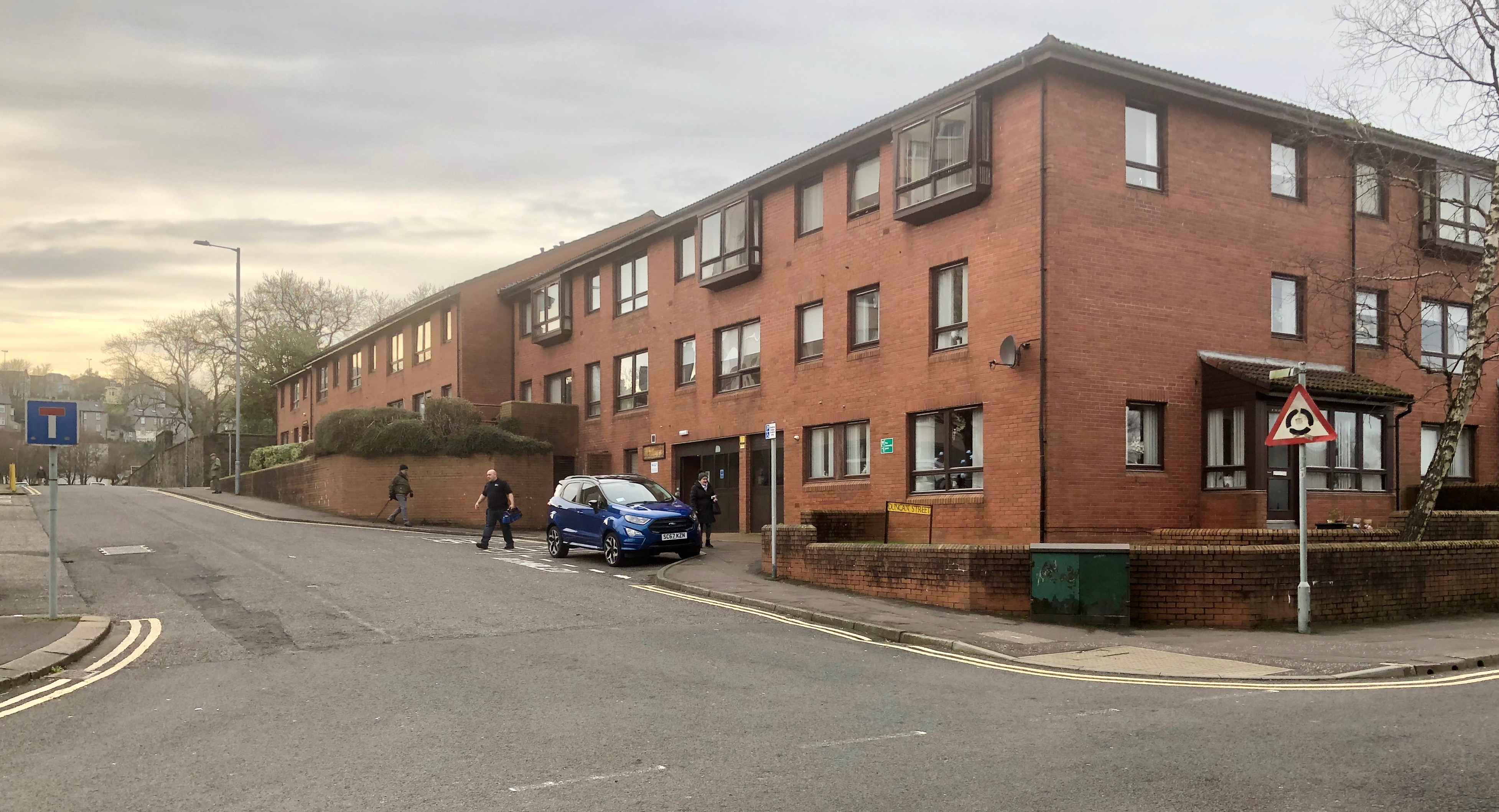 John Galt House sheltered housing in Greenock, view from East Shaw Street looking up Duncan Street with the cemetery wall visible beyond the housing complex.